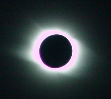 A photo of the Total Solar eclipse from Novosibirsk (Akademgorodok), Russia.